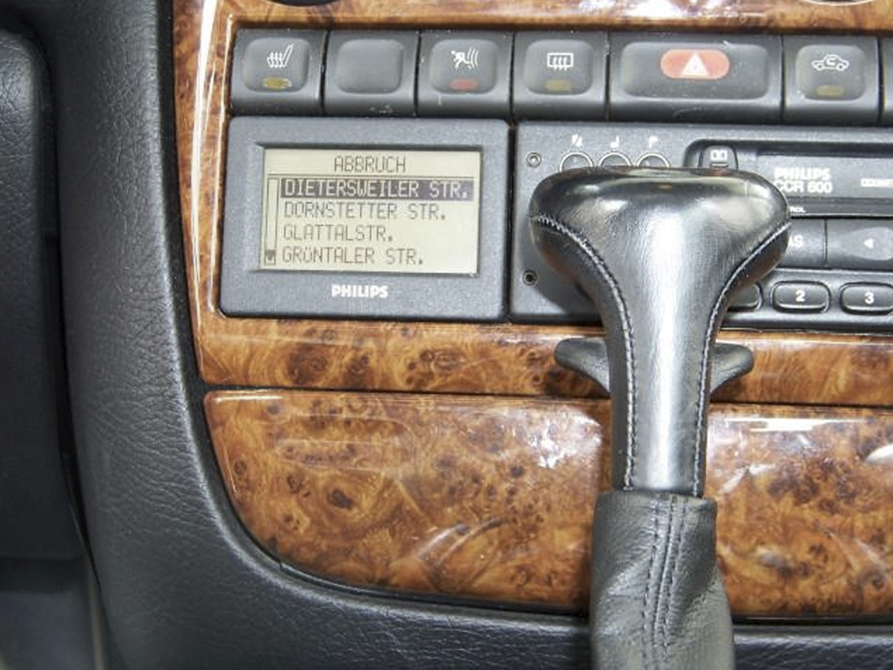 Opel Introduced First Generation of GPS System by PHILIPS electronics